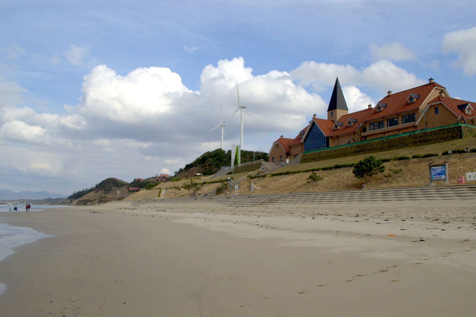 Kirara Taki in Izumo, Shimane pref., Japan.